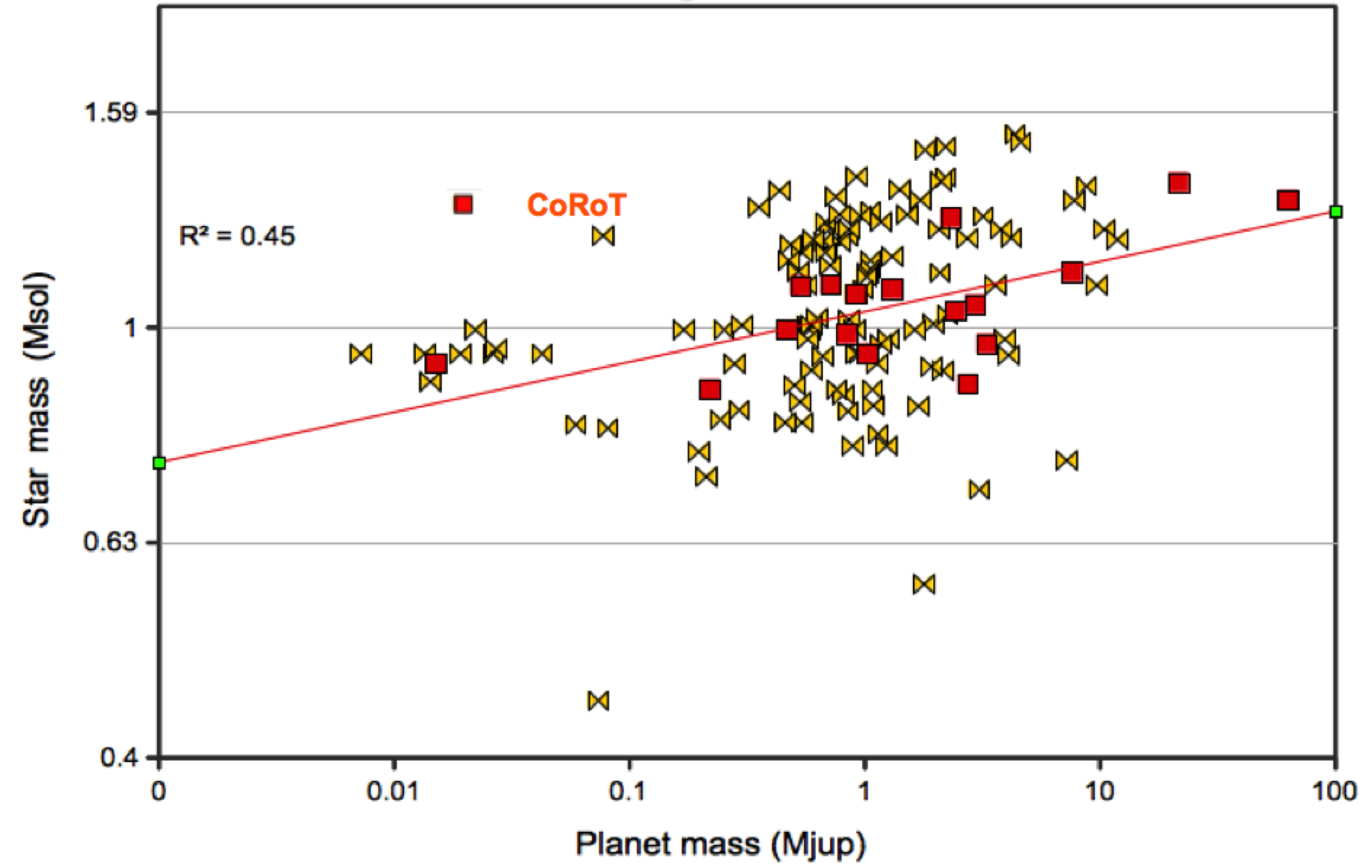 Diagram of planetary mass vs stellar mass for CoRoT (red) and other transiting planets (yellow), the line indicate a trend.